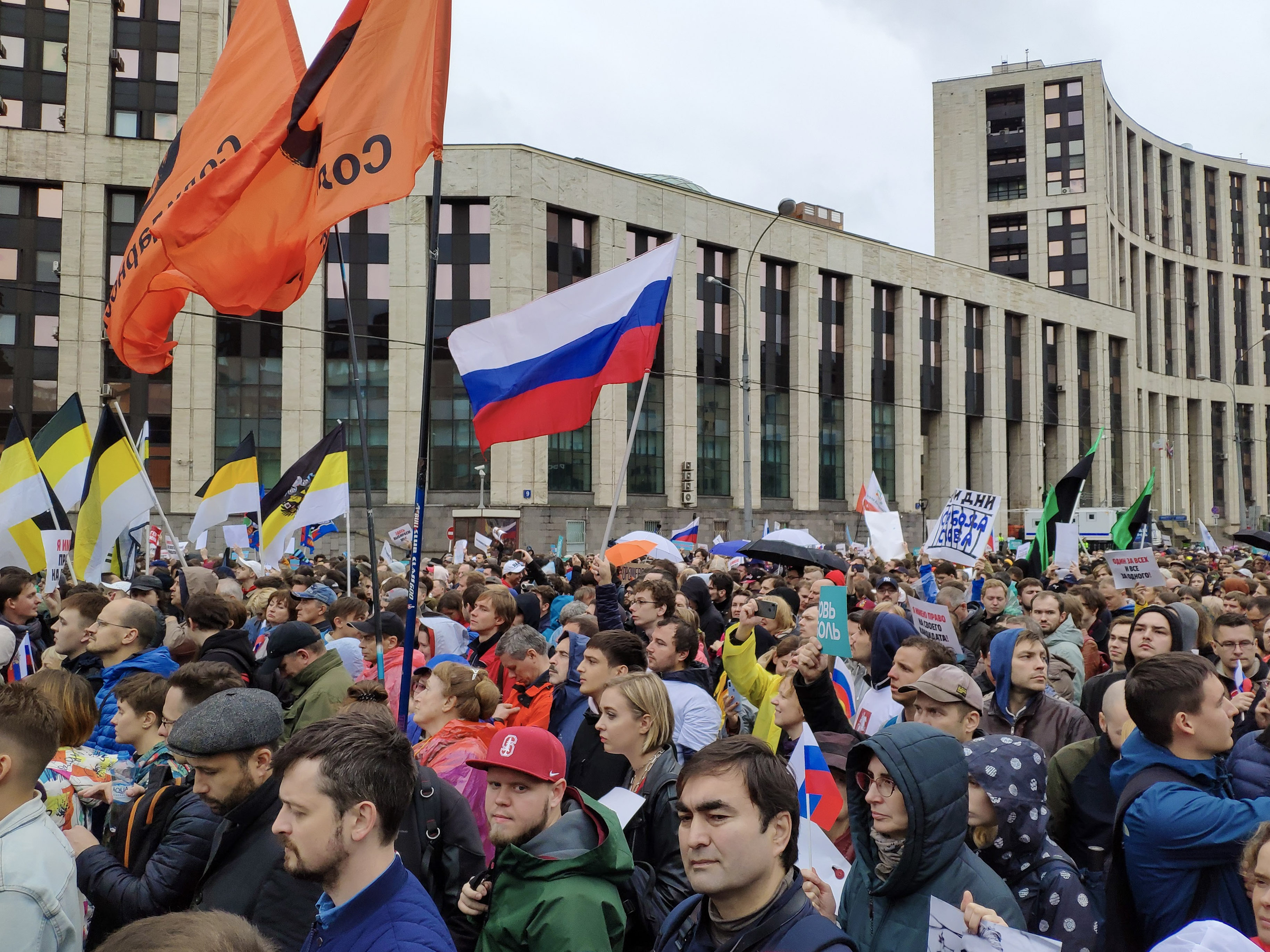 Rally for right to vote in Moscow (August 10, 2019).